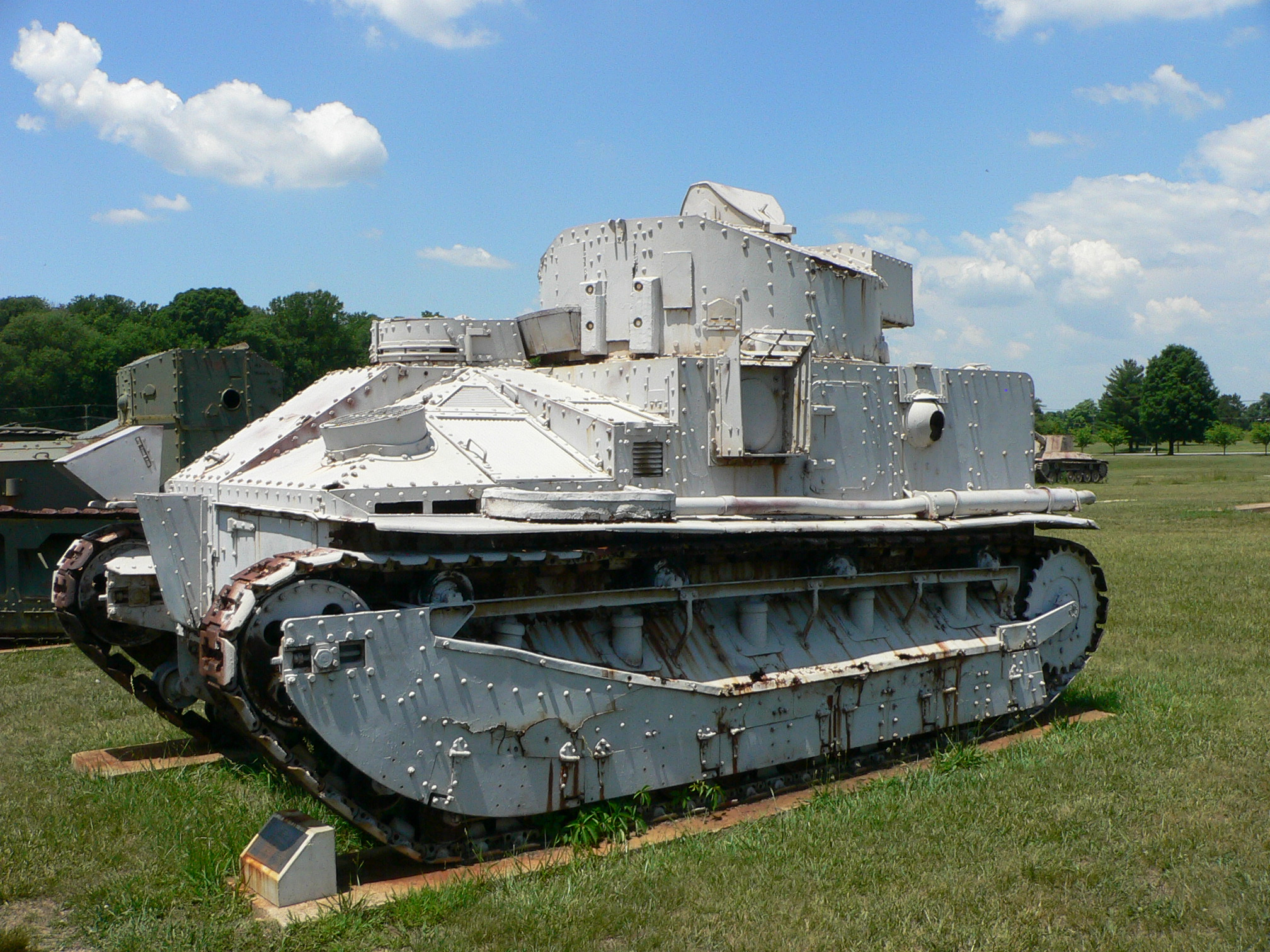 Vickers Medium Mk IIA. Picture taken by myself, Mark Pellegrini, at the United States Army Ordnance Museum (Aberdeen Proving Ground, MD) on June 12, 2007.